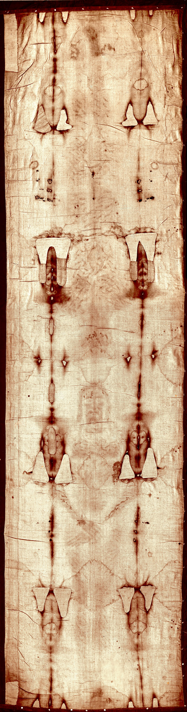 Full-length photograph of the Shroud of Turin which is said to have been the cloth placed on Jesus at the time of his burial.